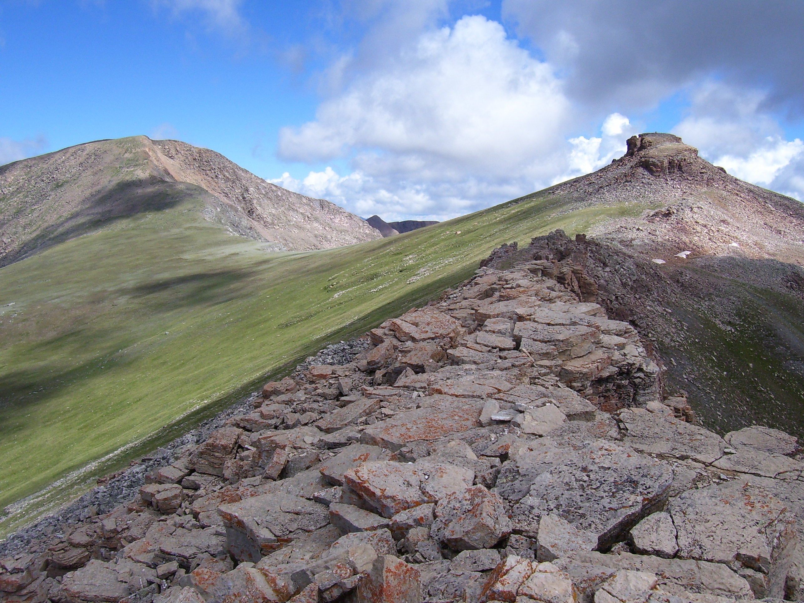 Henry Mountain and Square Top Mountain within the Fossil Ridge Wilderness. Henry Mountain, elevation 13,254 ft (4,040 m), is the highest point in the wilderness, which is located in the Gunnison National Forest.